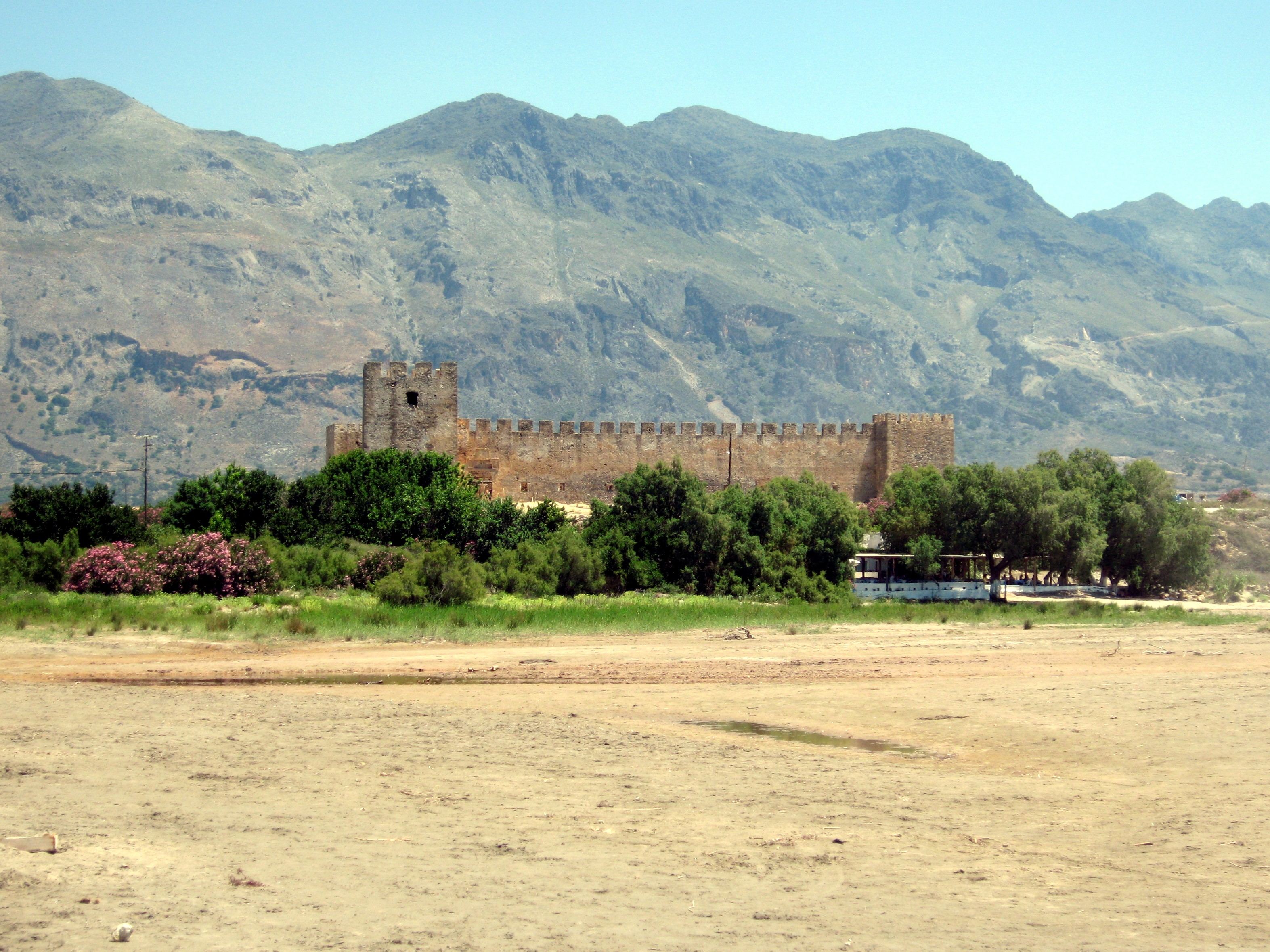 Frangokastello, Sfakia, Nomos Chania, Crete, Greece